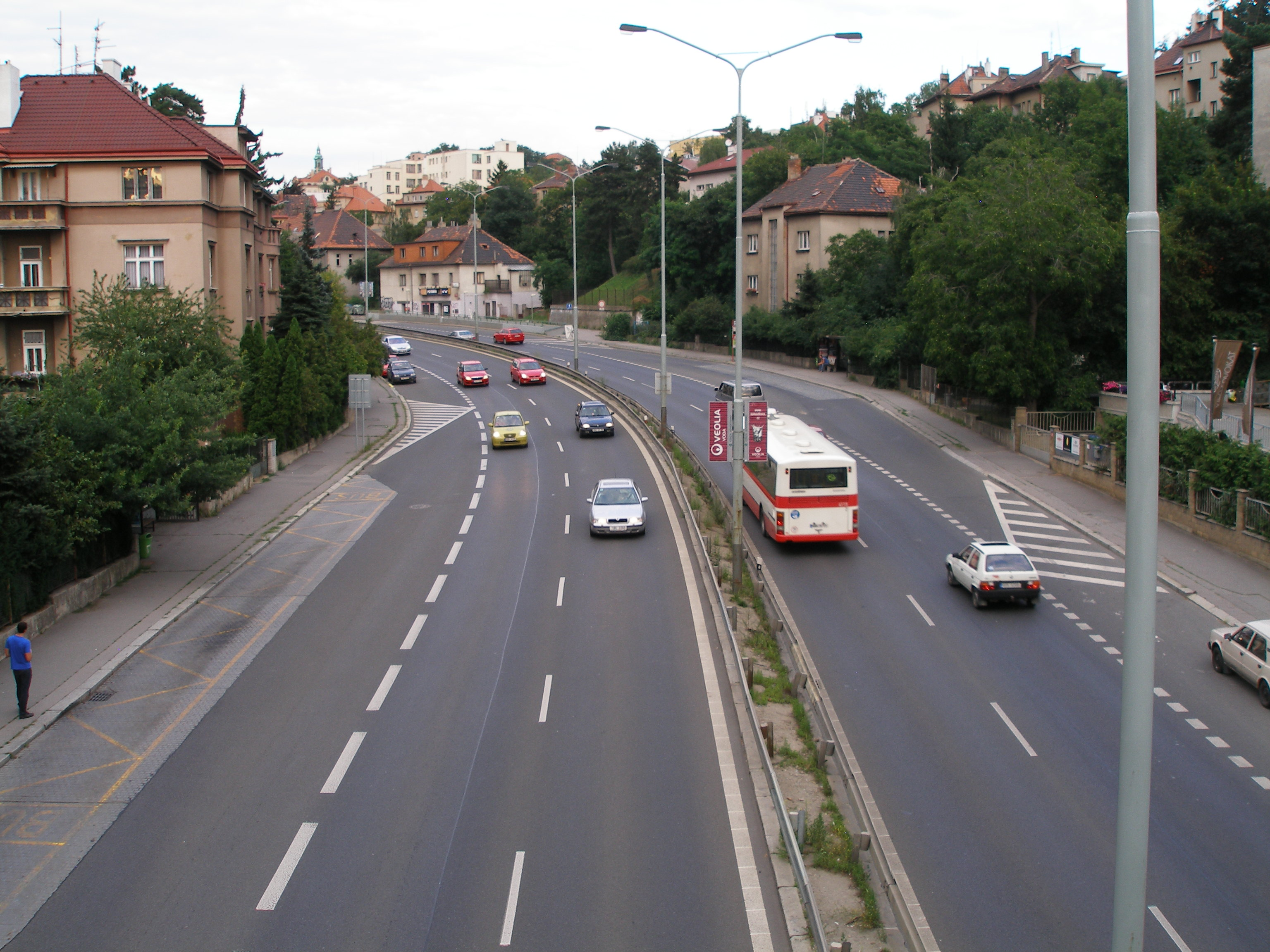 View to east from bridge over V Holešovičkách street.